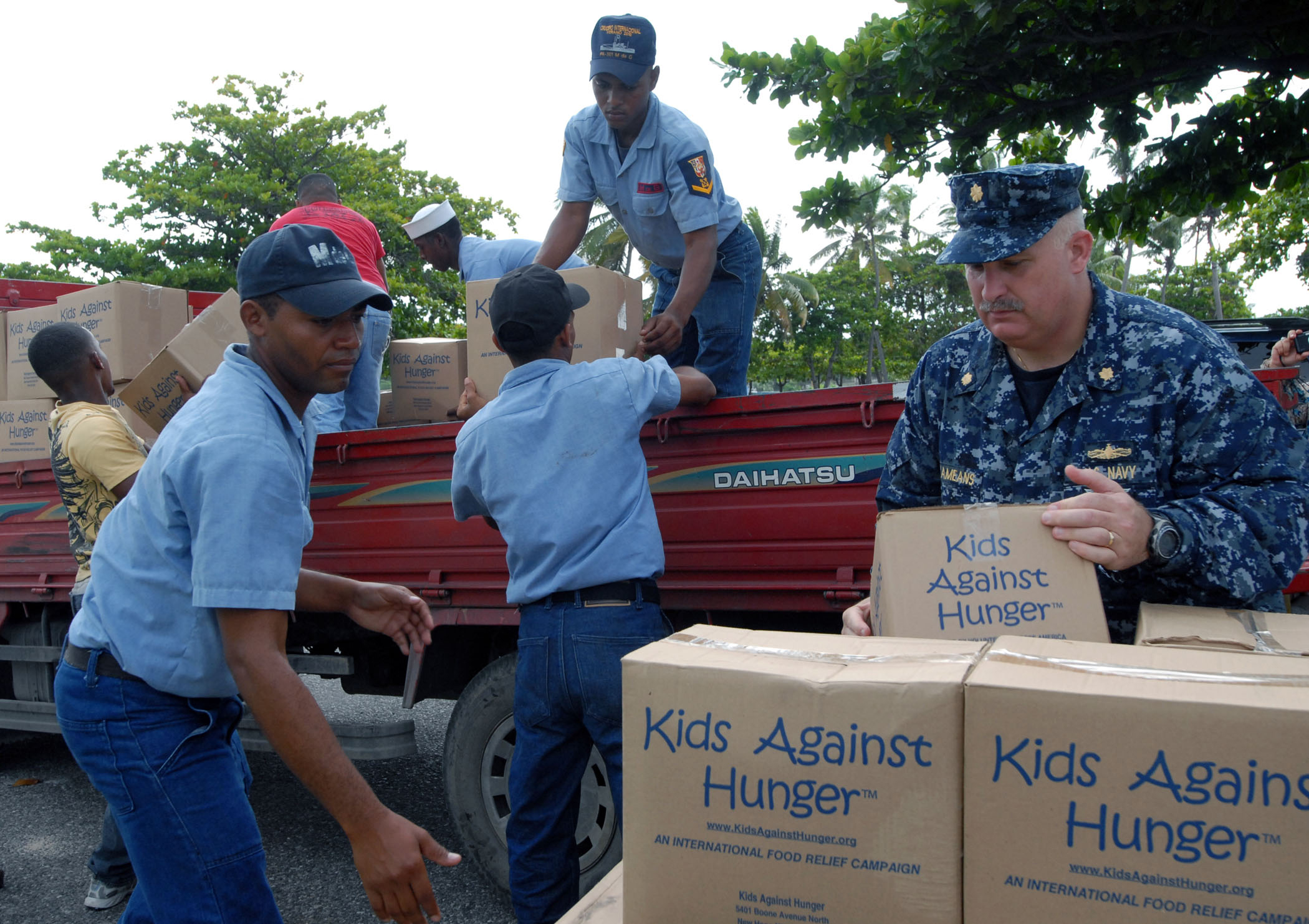 U.S. Navy Lt. Cmdr. Ken Cremeans (right), deputy mission commander for Southern Partnership Station 2010, helps members of the Dominican Republic's defense forces load pallets of Project Handclasp aid into trucks in Santo Domingo, Dominican Republic, on Sept. 20, 2010. U.S. sailors and airmen embarked aboard the High Speed Vessel Swift (HSV 2) delivered educational, humanitarian and goodwill material to the country. The ship also supported Southern Partnership Station 2010, a deployment of various specialty platforms to the U.S. Southern Command's area of responsibility in the Caribbean and Central America.